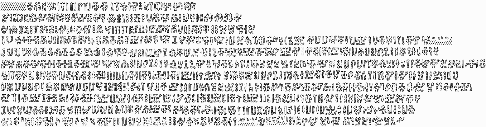 Barthel's tracing of rongorongo tablet P, verso